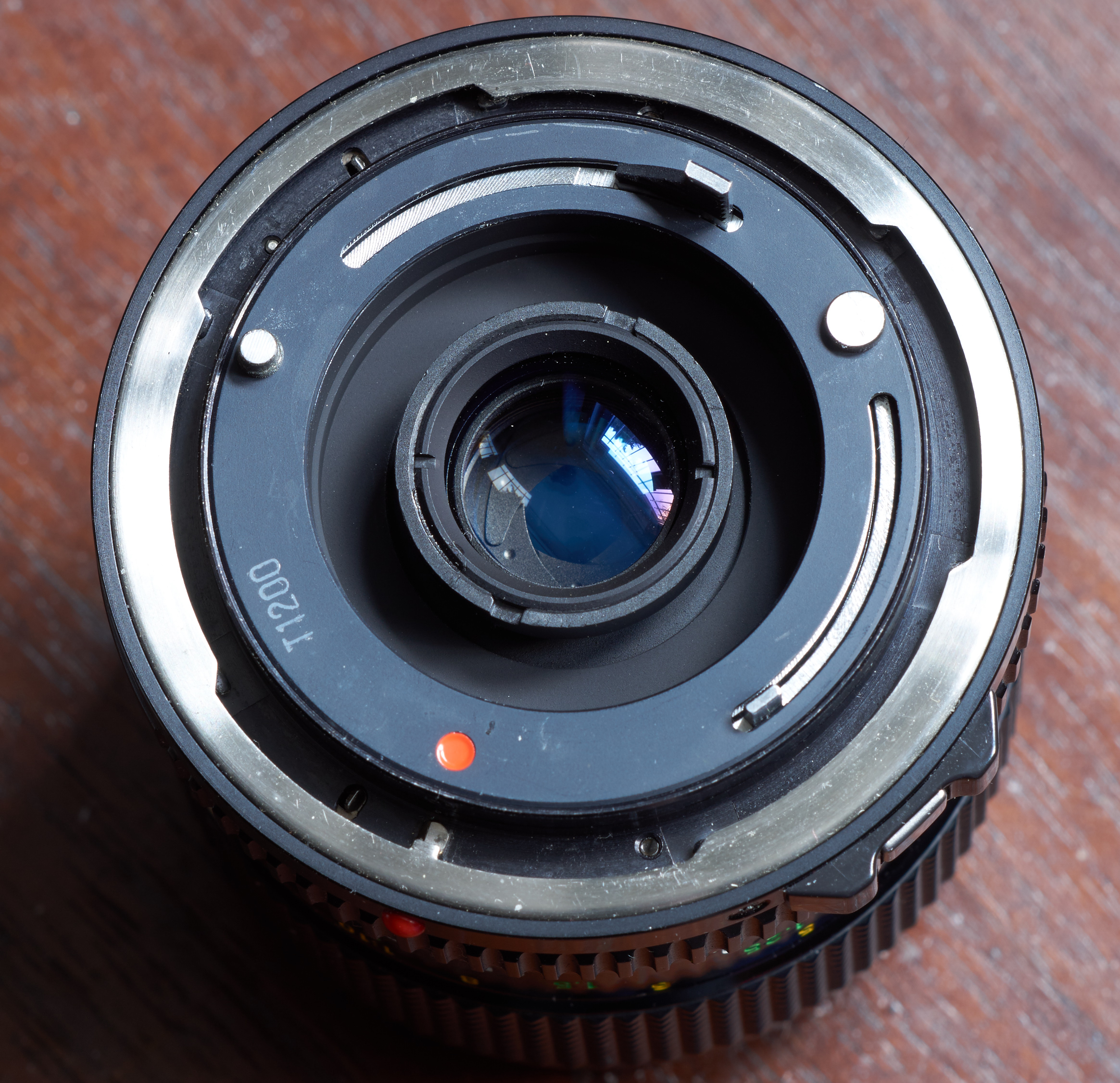 Rear side of the Canon lens FD 50mm 1:3.5 MACRO (new FD mount)